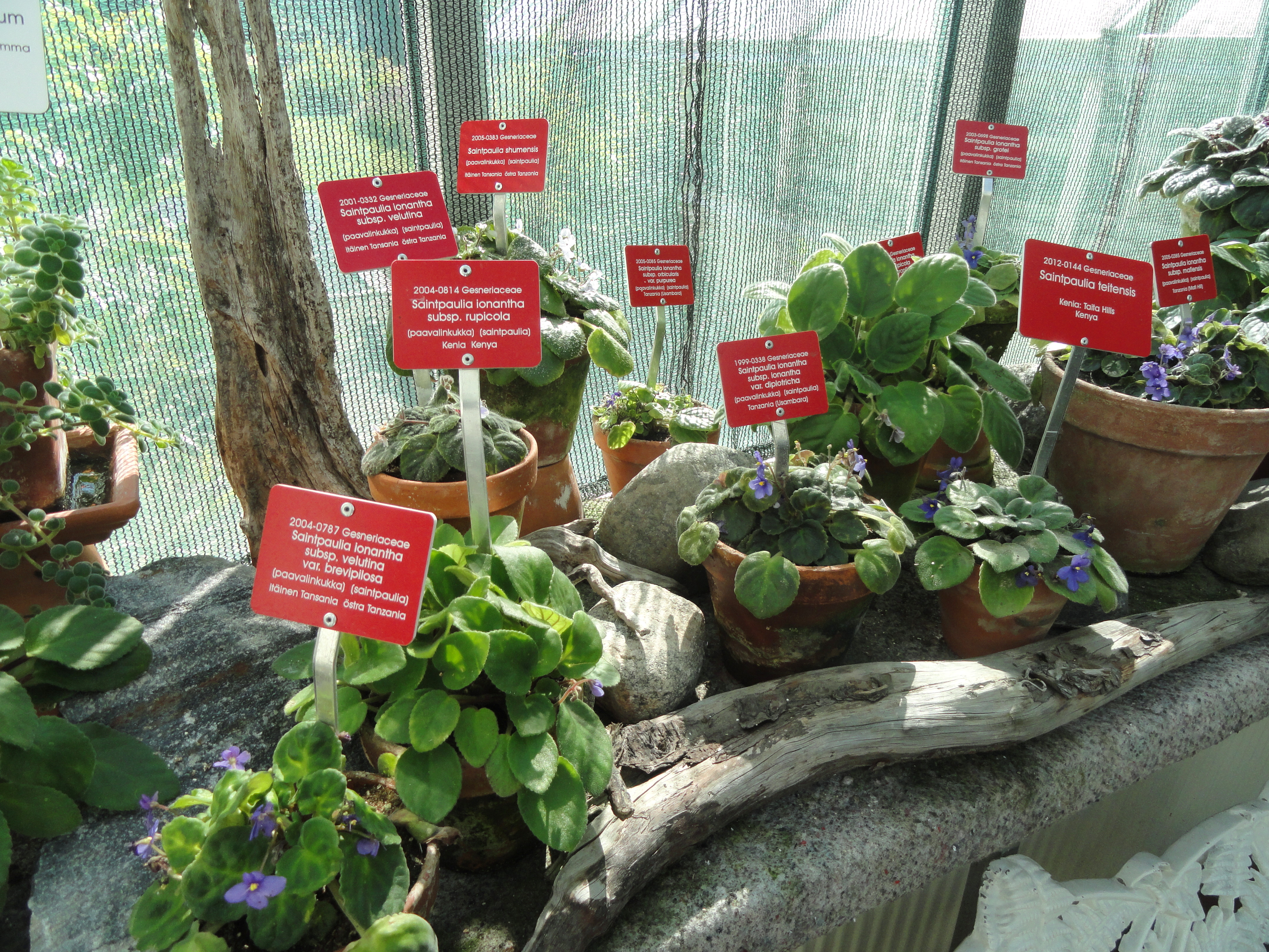 Botanical specimen. The University of Helsinki Botanical Garden at Kaisaniemi